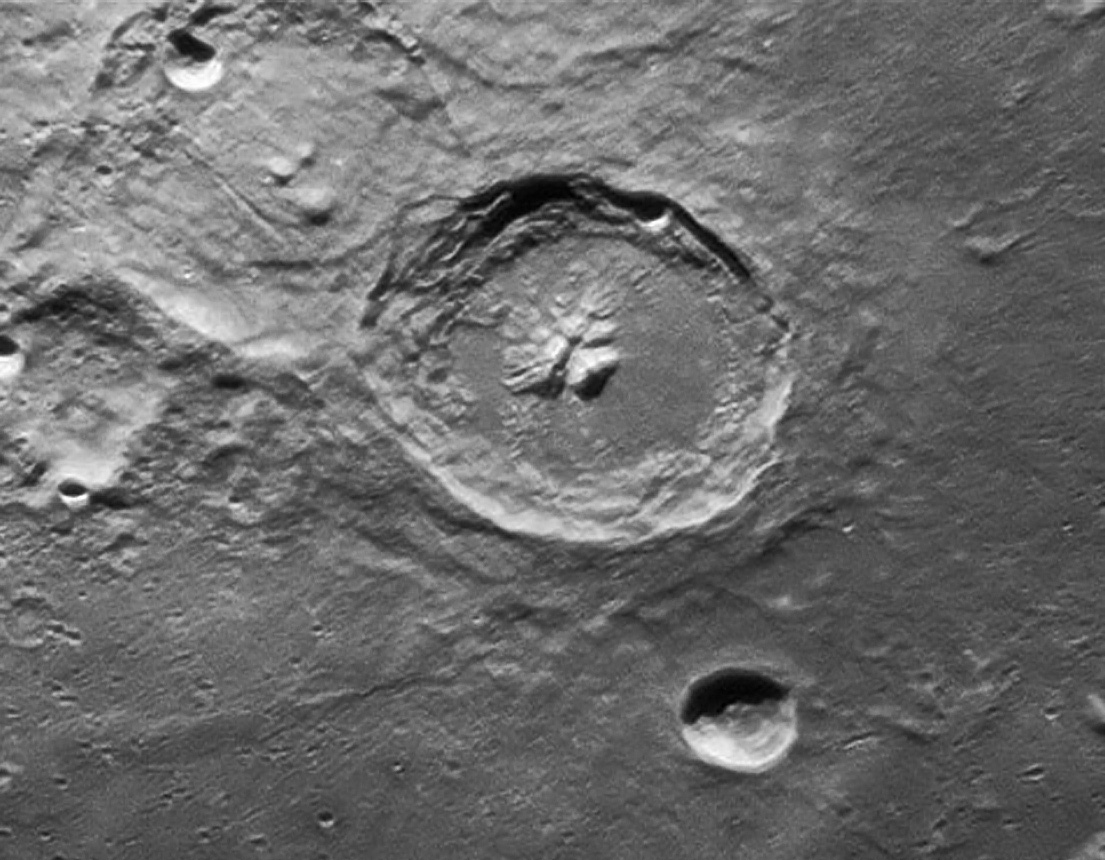 By Jesús Piñeiro V., Venezuela January, 28 2016 Optics Meade 10" f/6.3 using 9.7mm projection eyepiece resulting in 16.000 mm focal length Camera Canon EOS 50D. 360 frames stacked with Registax 6